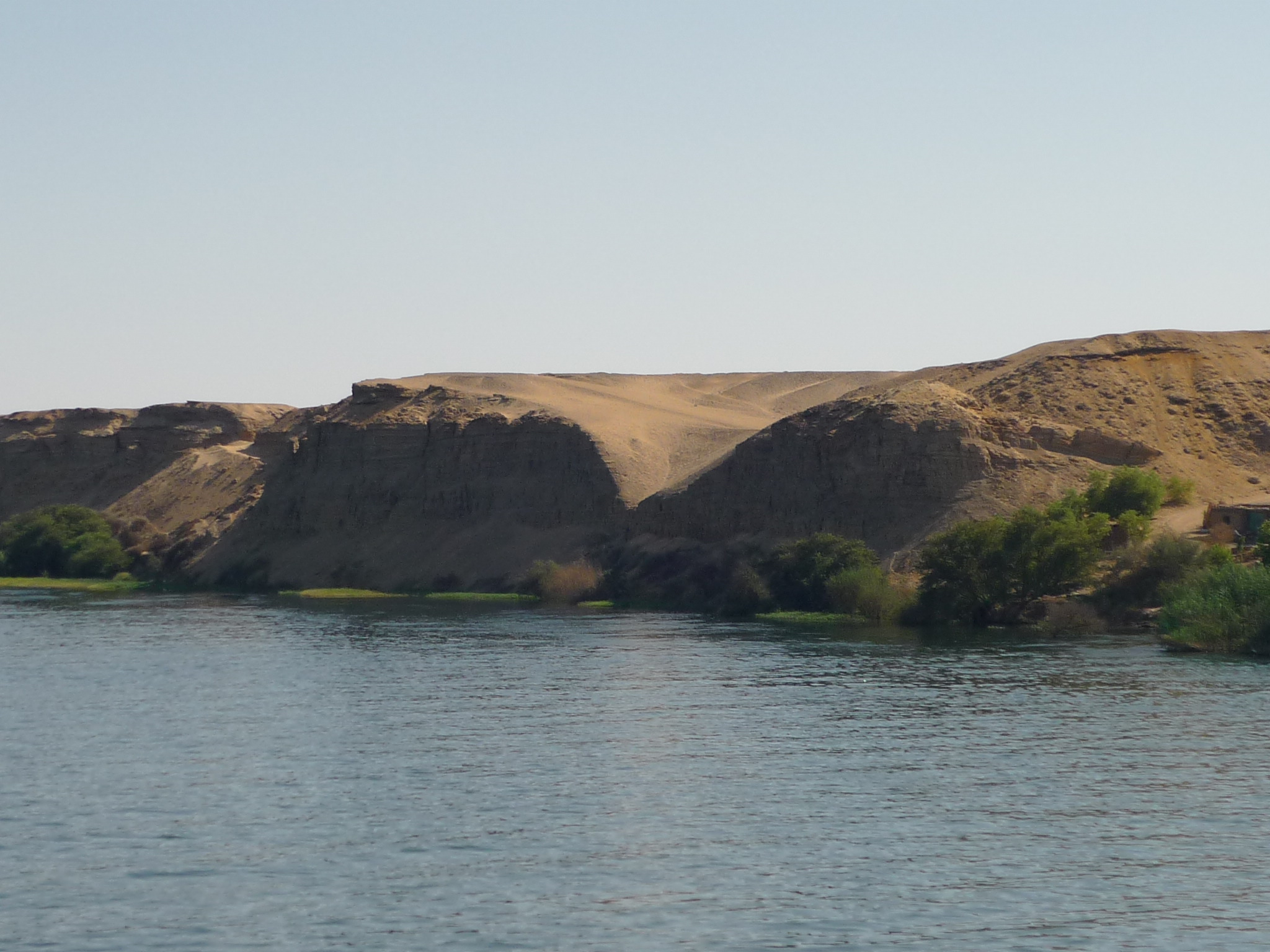 Nile left bank between Edfu and Kom Ombo, Egypt